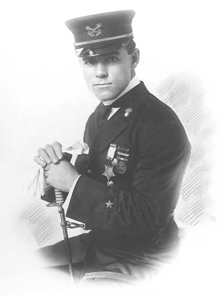 Portrait of Gunner Abraham DeSomer, USN, taken 1 October 1916, wearing the Medal of Honor he received for his "extraordinary heroism" at Veracruz, Mexico during 21-22 April 1914. Note the "flaming bomb" insignia and other details of his uniform.